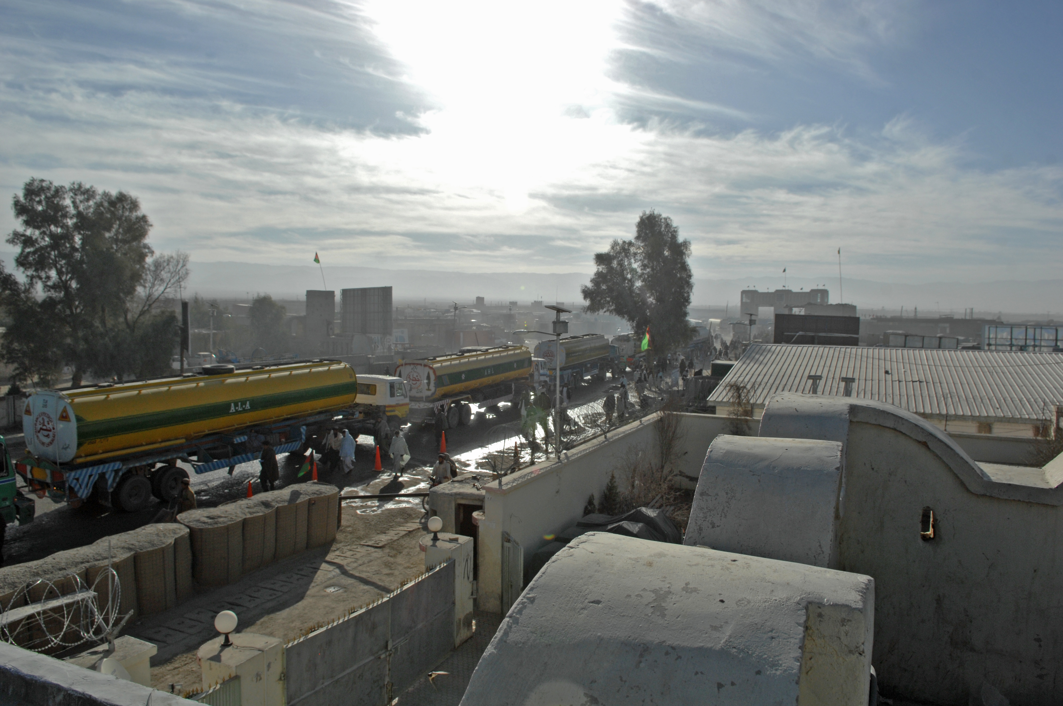 Afghan truckers make their way towards Friendship Gate, the border crossing in Wesh, Afghanistan, on their way to Pakistan, Feb. 21. (U.S. Air Force photo by Master Sgt. Juan Valdes)